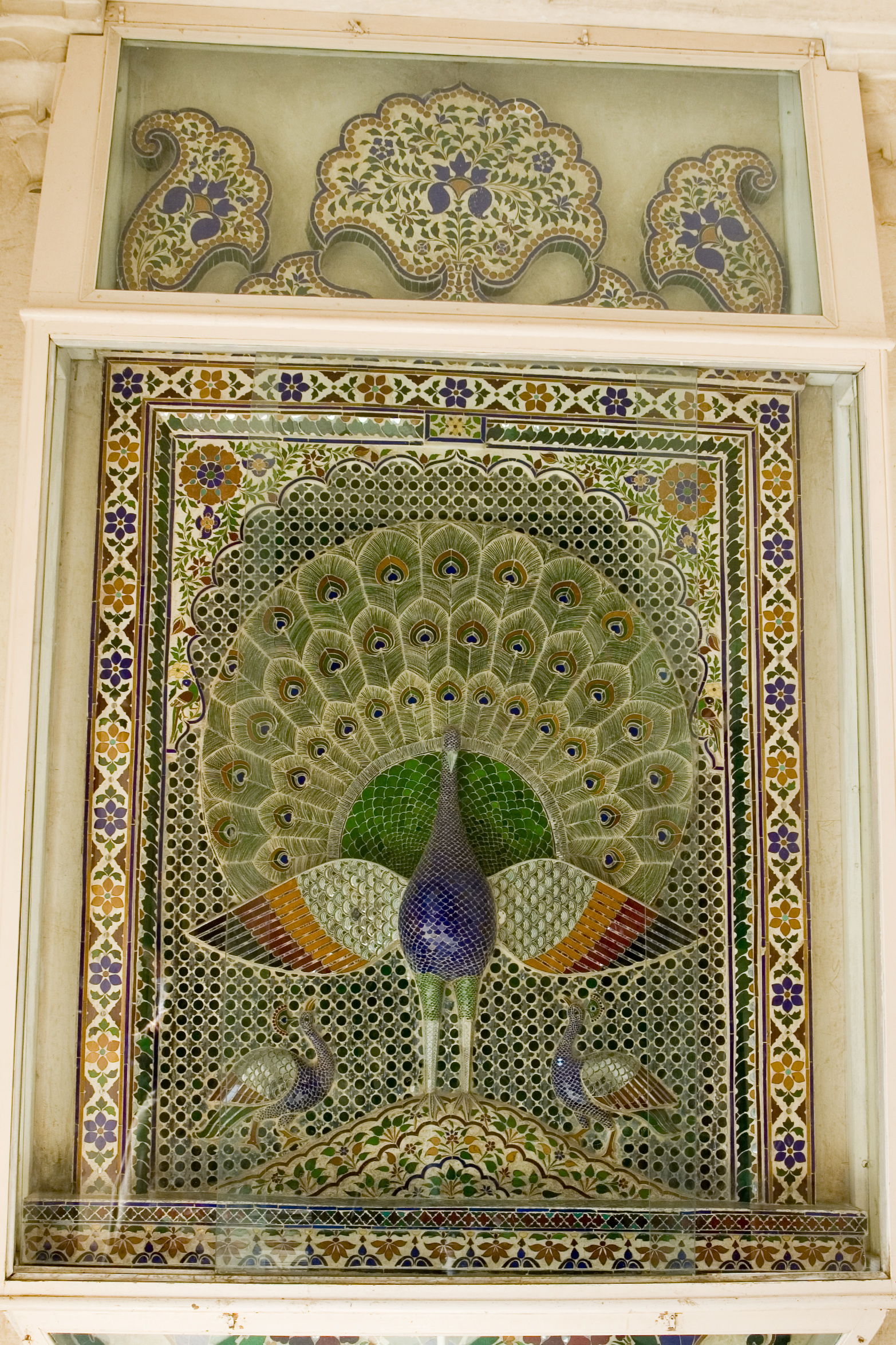 The peacock on Mor chowk (Peacock Square) wall, City Palace, Udaipur.